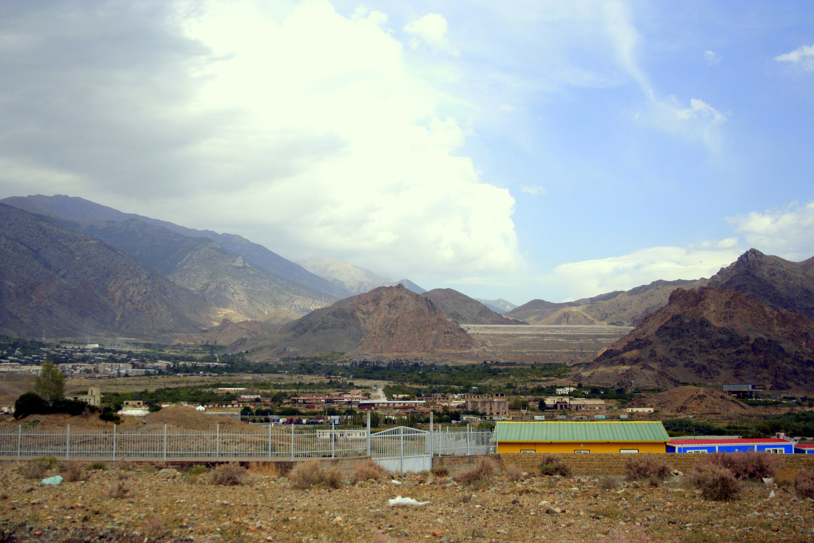 Agarak, Syunik, Armenia.